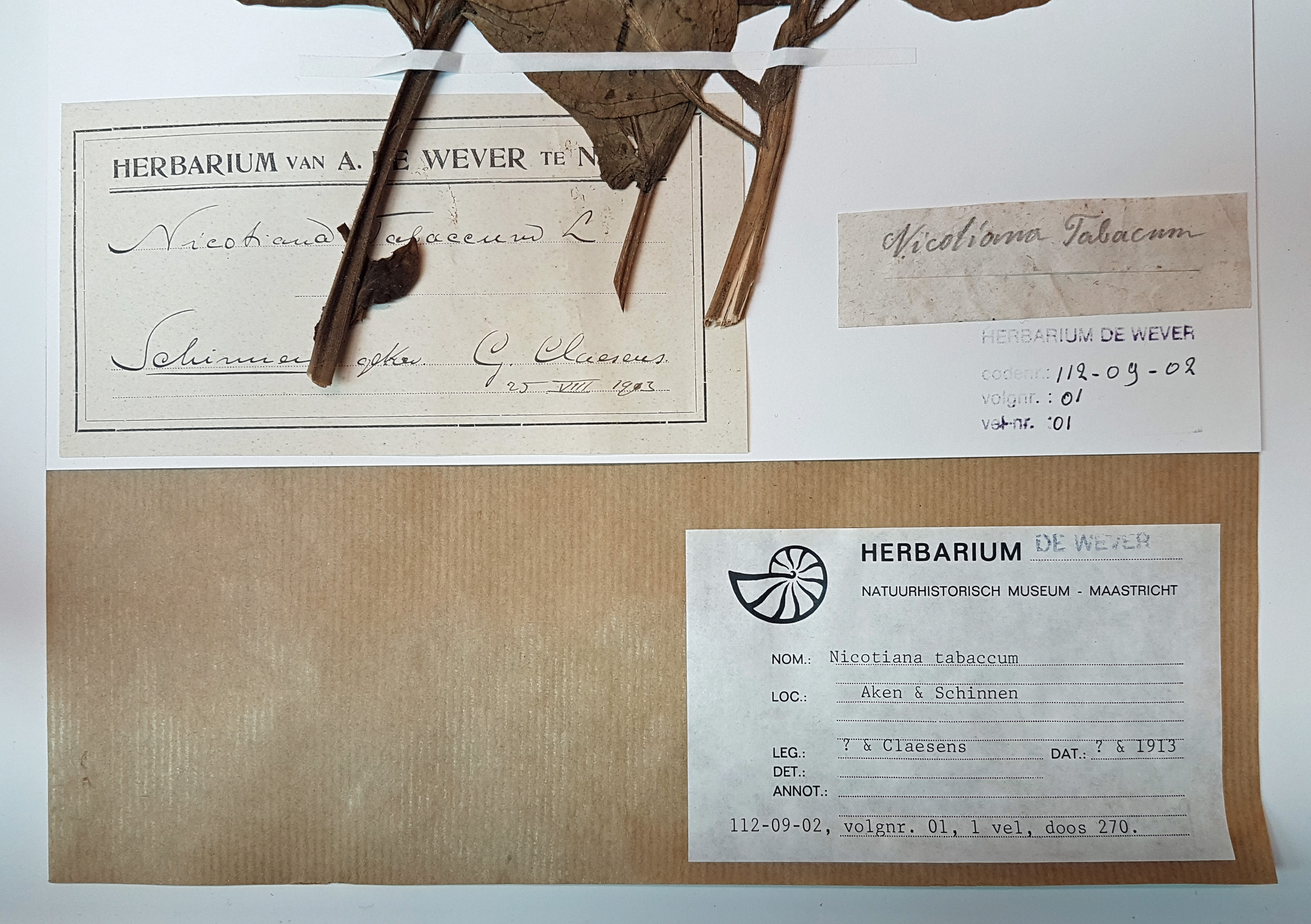 Detail from August de Wever's herbarium in the collection of the Natural History Museum in Maastricht, the Netherlands. Photographed at an exhibition on books about herbs and herbal medicine in the inner city branch of the university library of Maastricht University at Nieuwenhofstraat/Grote Looiersstraat.